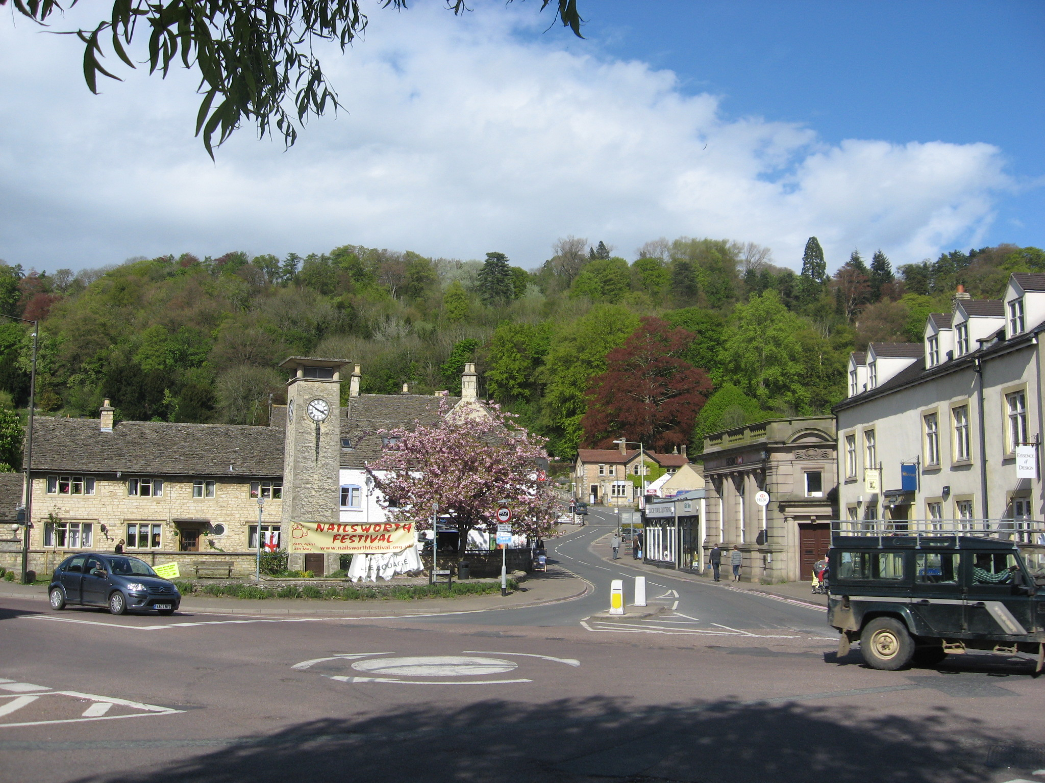 Nailsworth Town Clock, Gloucestershire